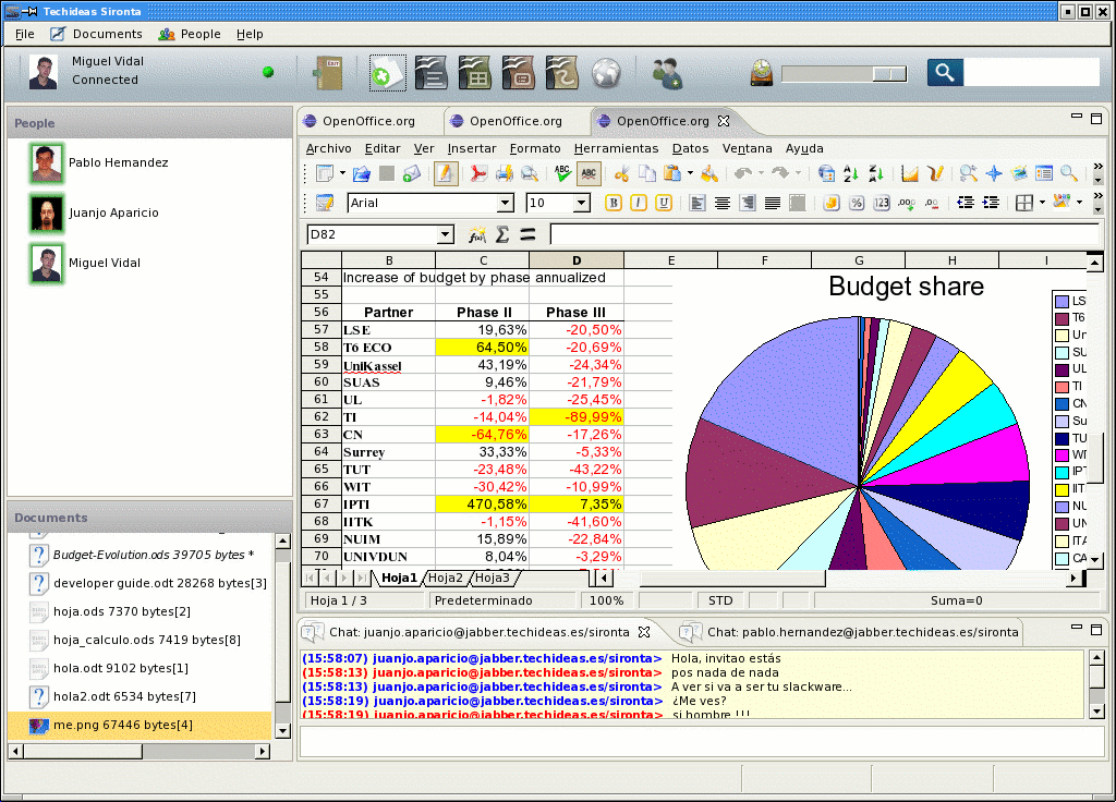 Sironta screenshot